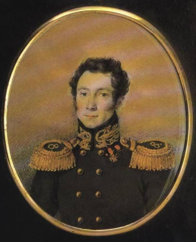 Bestuzhev Nikolaj Aleksandrovich (1791-1855), Decembrist